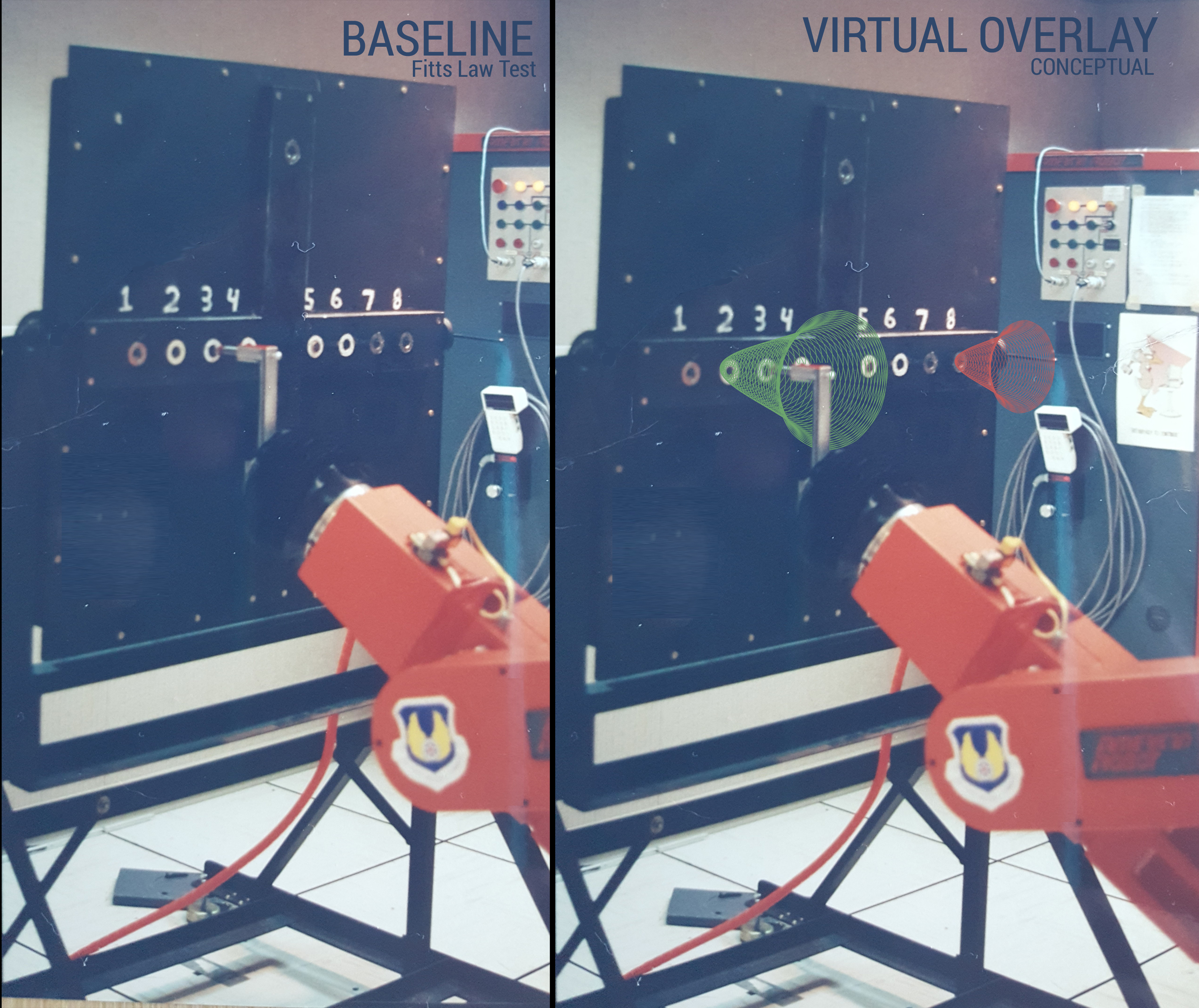 Virtual Fixtures were used by Rosenberg (1992) to improve operator performance in a telerobotic Fitts Law peg board test.